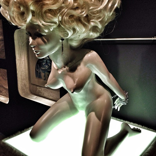 Korova Milk Bar mannequin from the film A Clockwork Orange by Stanley Kubrick.